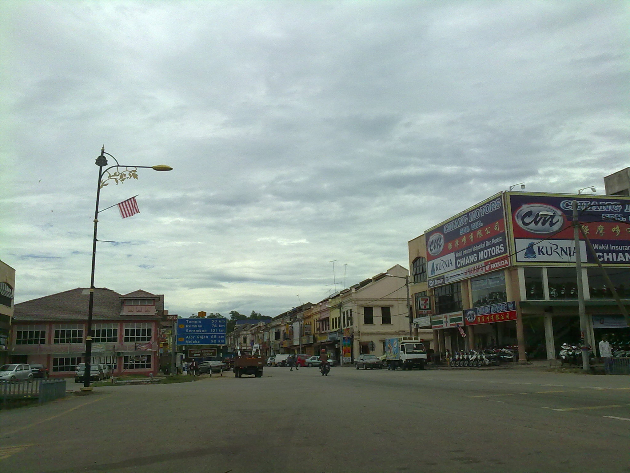 A view of Pekan Gemas in Negeri Sembilan, Malaysia.